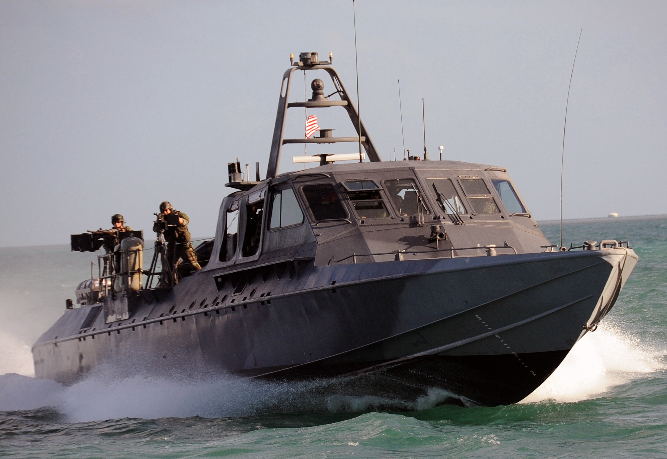 KEY WEST, Fla. (April 28, 2009) A Special Warfare Combatant-Craft Crewman (SWCC) assigned to Special Boat Team (SBT) 20 navigates the MARK V Special Operations Craft for a scene in the upcoming Bandito Brothers production ¨I Am That Man", due in theaters in 2010. SWCC operate and maintain the Navy's inventory of state of the art, high-speed boats in support of special operations missions worldwide. (U.S. Navy photo by Chief Mass Communication Specialist Kathryn Whittenberger/Released)